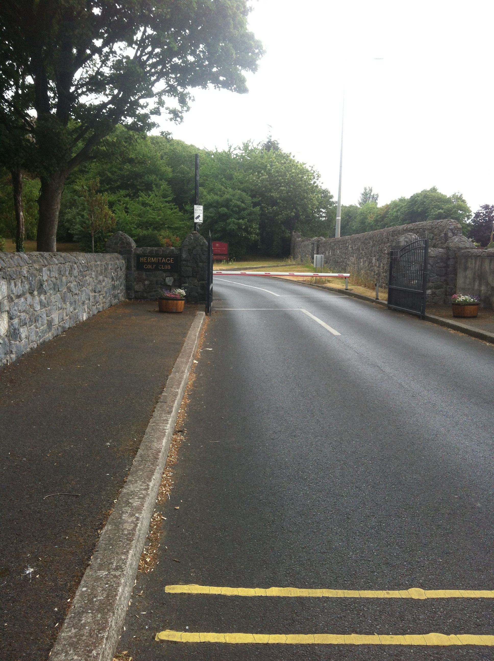 This is a photograph of the entrance to Hermitage Golf Club in Lucan, Co. Dublin